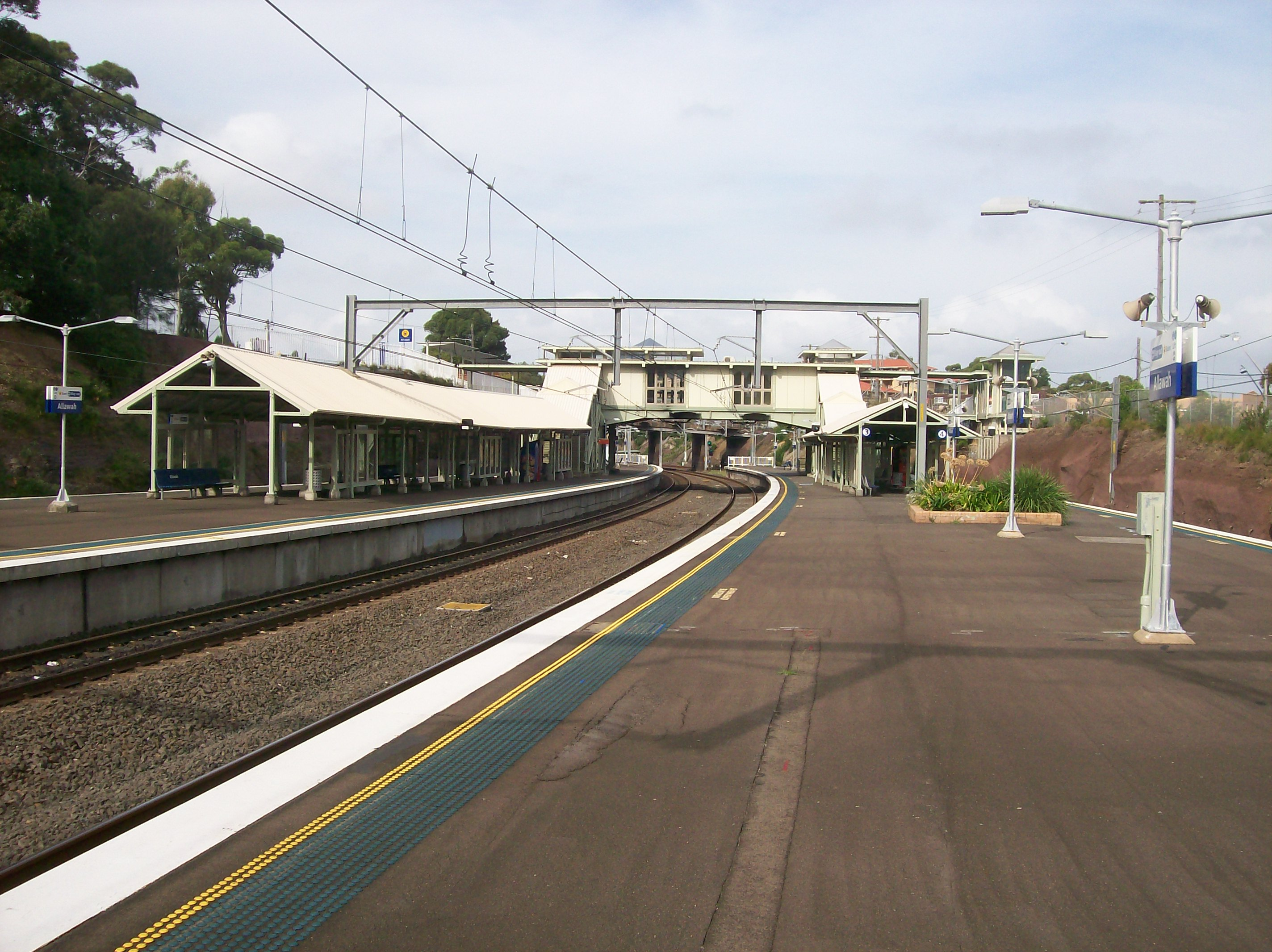 AllawahRailwayStation